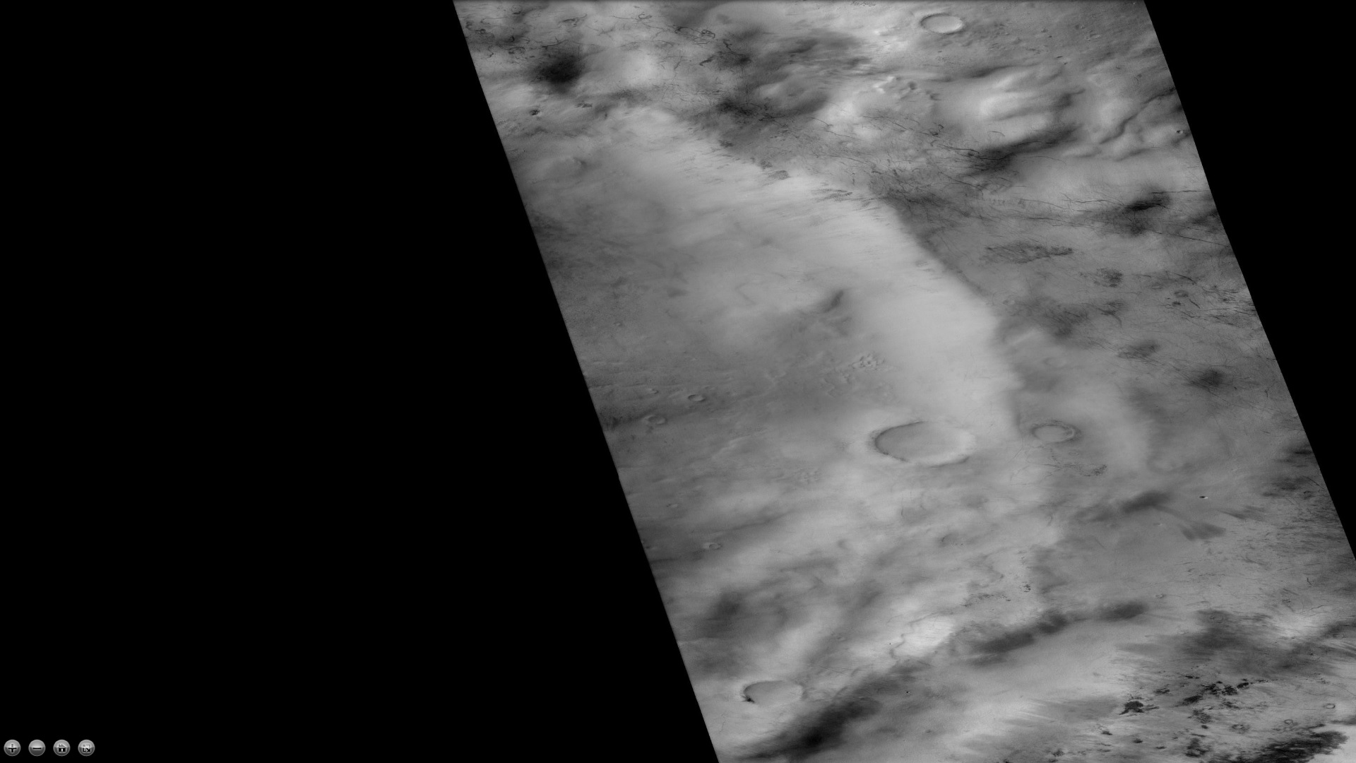 Weinbaum crater, as seen by ctx